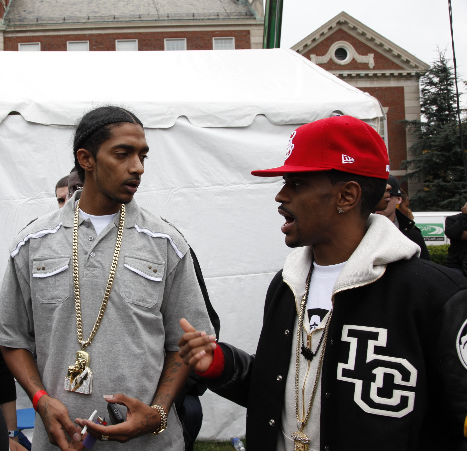 Big Sean & Nipsey Hussle in 2009 at Howard University